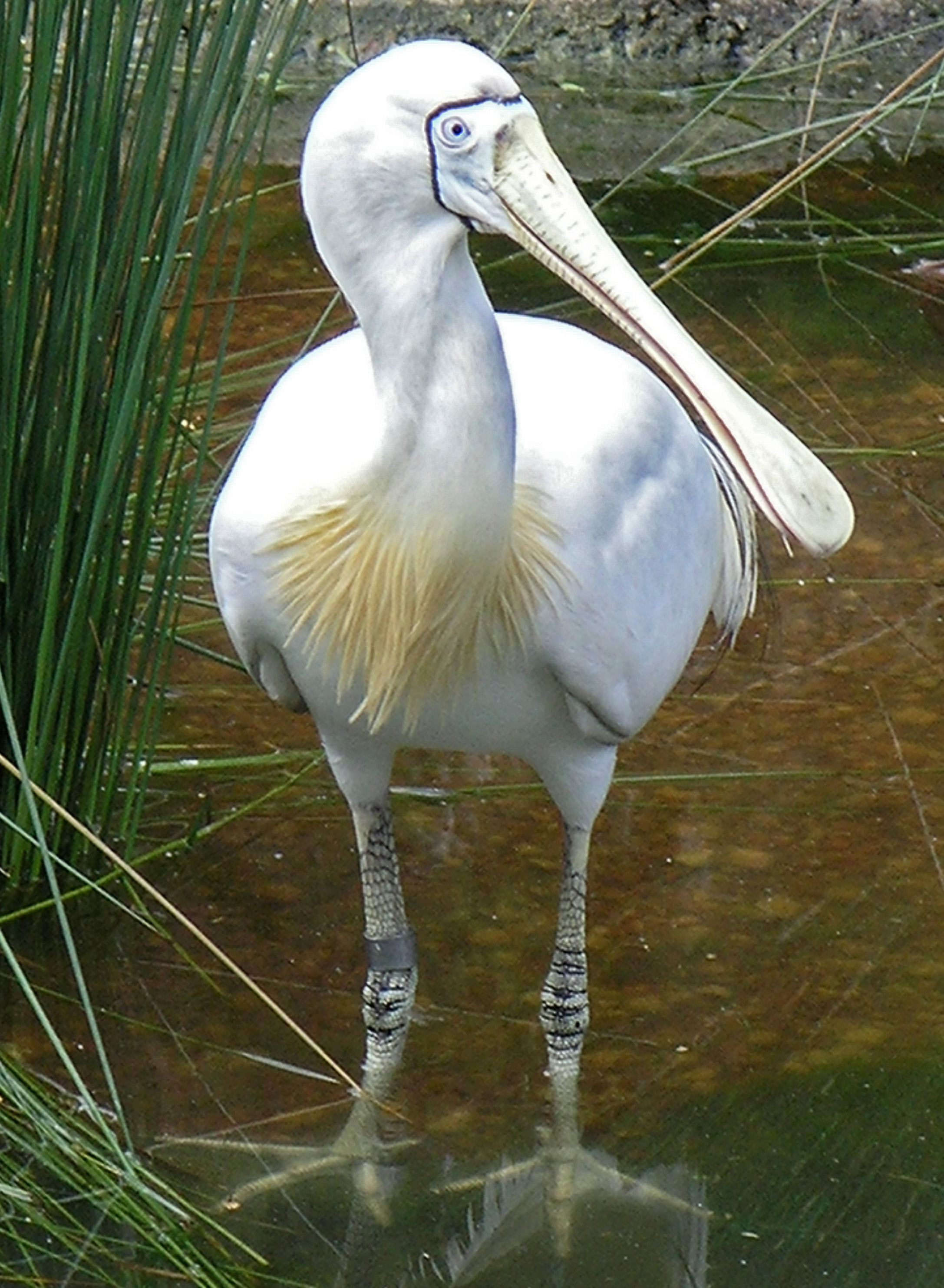 Yellow-billed Spoonbill Platalea flavipes taken at Perth Zoo, September 2005